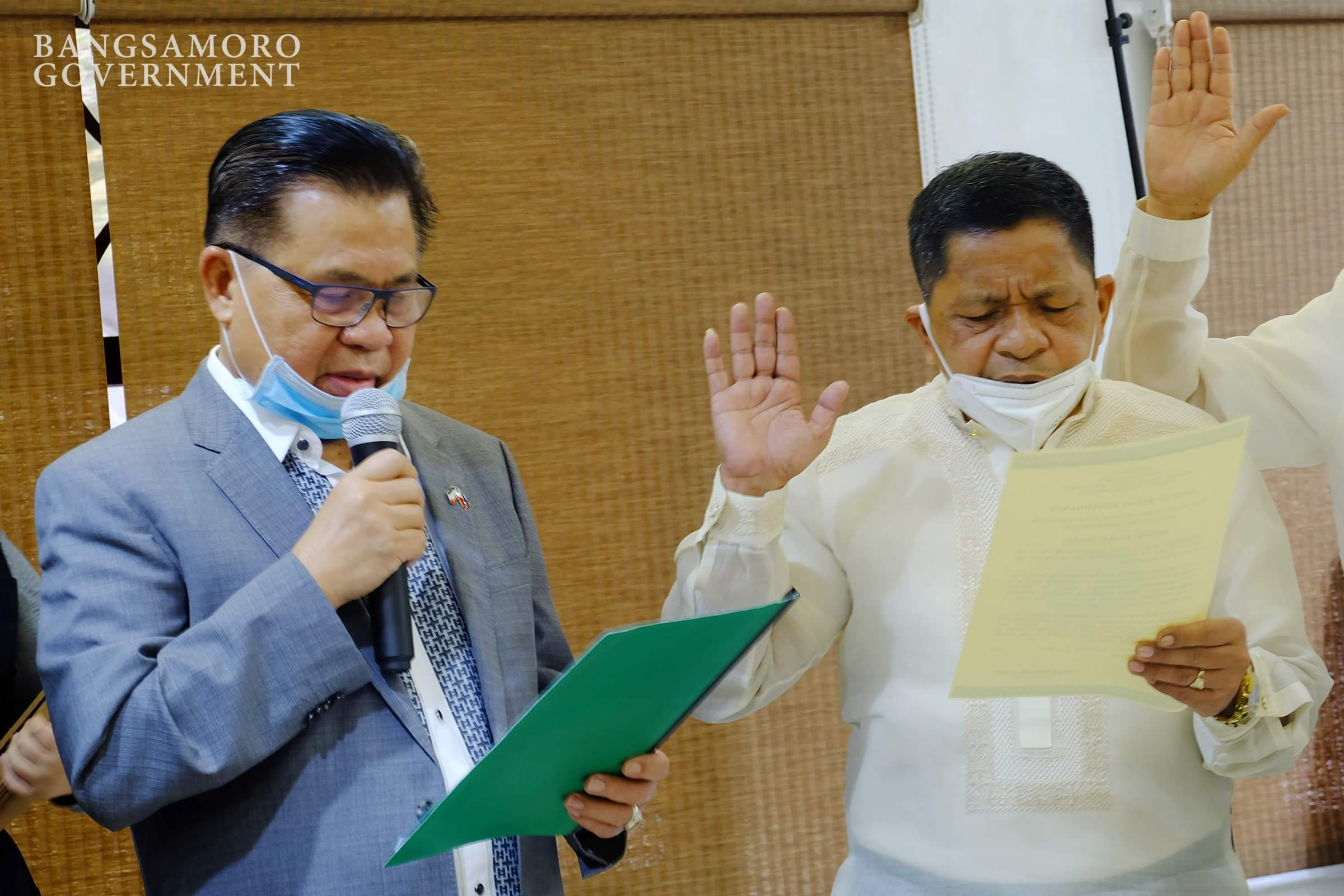 The Bangsamoro Government has created the Development Coordinating Office (DCO) to administer the 63 barangays in North Cotabato which are now part of the territory of the Bangsamoro region. The officials took their Oath of Moral Governance in the presence of Chief Minister Ahod “Al-Haj Murad” Ebrahim Tuesday, June 30 at the Bangsamoro Government Center in Cotabato City.